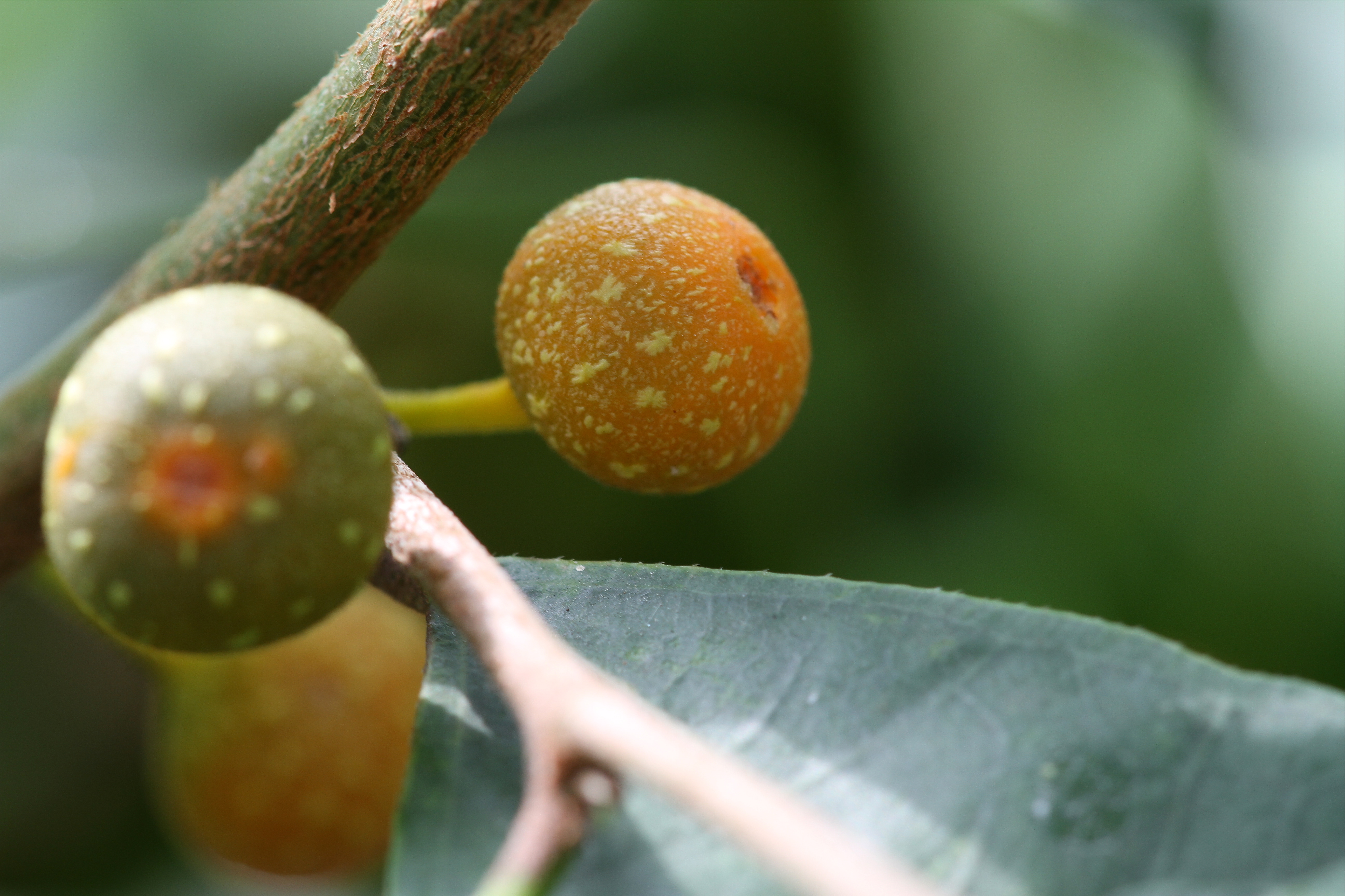 Fruits of Ficus sinuata